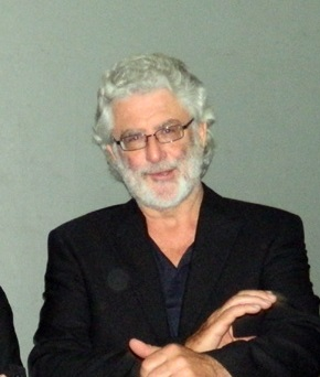 Paul Pholeros photographed at CAA Conference Dhaka 2013; cropped from larger image